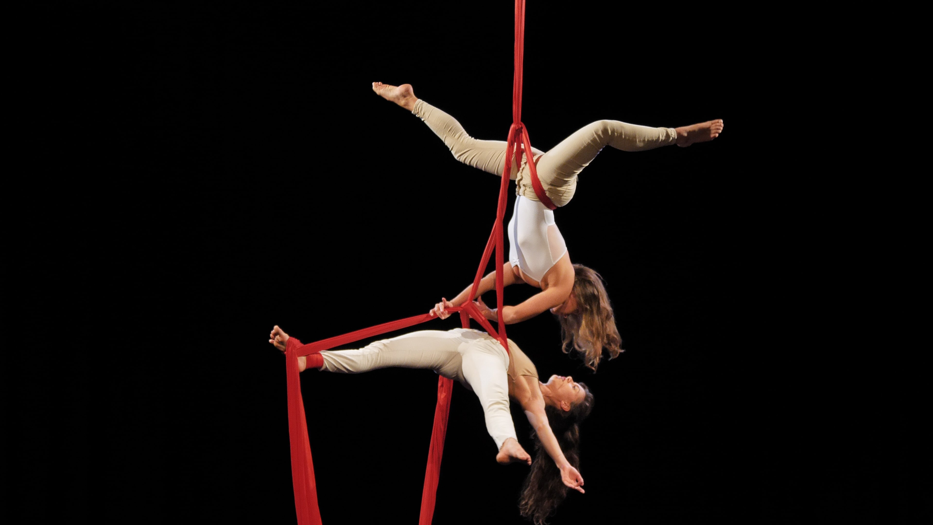 Aerial silk duet, performance Lignes de Soi from the Drapés Aériens company, choreographed by Fred Deb'